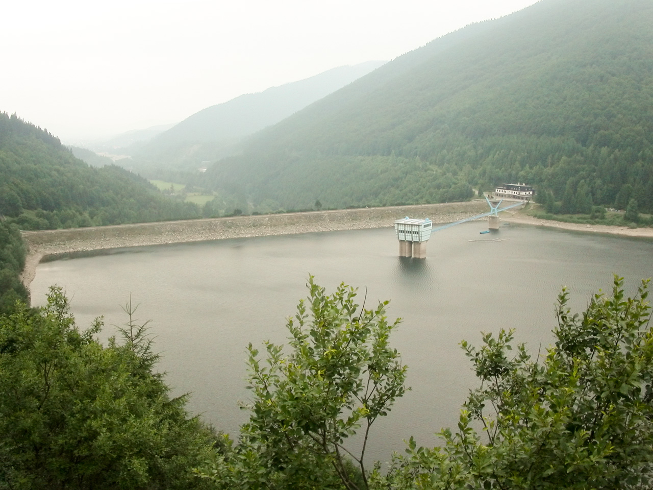 Šance Reservoir on the Ostravice River in the Moravian-Silesian Beskids